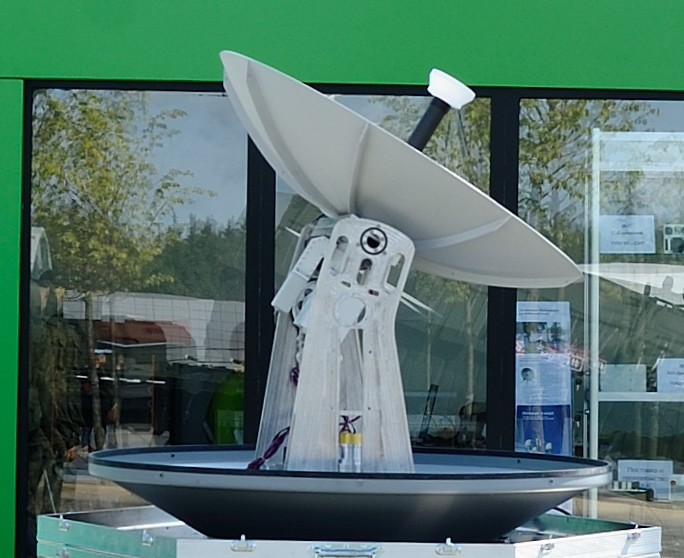 Maritime VSAT antenna without protective dome